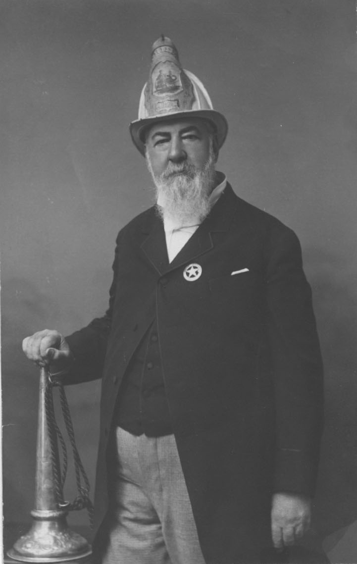 Alexander Joy Cartwright, Jr. (April 17, 1820 – July 12, 1892), was officially declared the inventor of the modern game of baseball by the United States Congress on June 3, 1953. More judiciously, he is one of several people sometimes called a "father of baseball" in the 21st century.